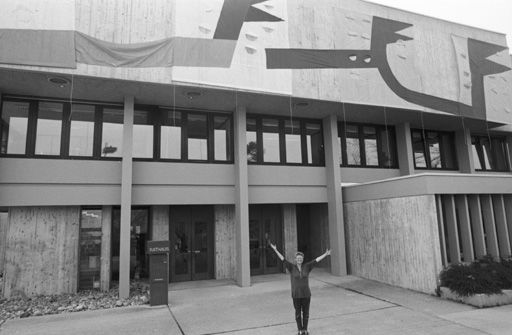 Local paper #96